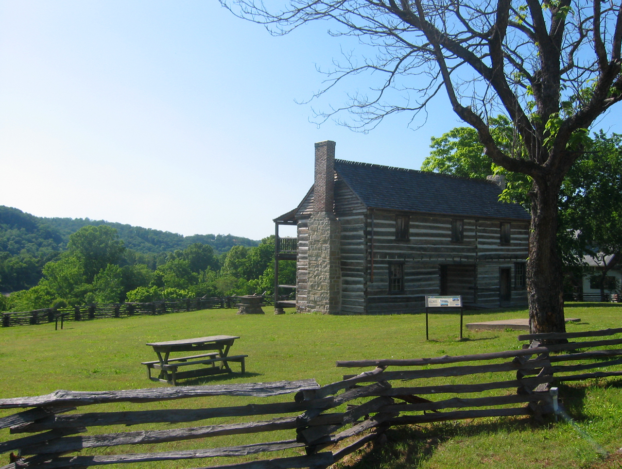 Historic Wolf House, Norfork, Arkansas. Map of location.